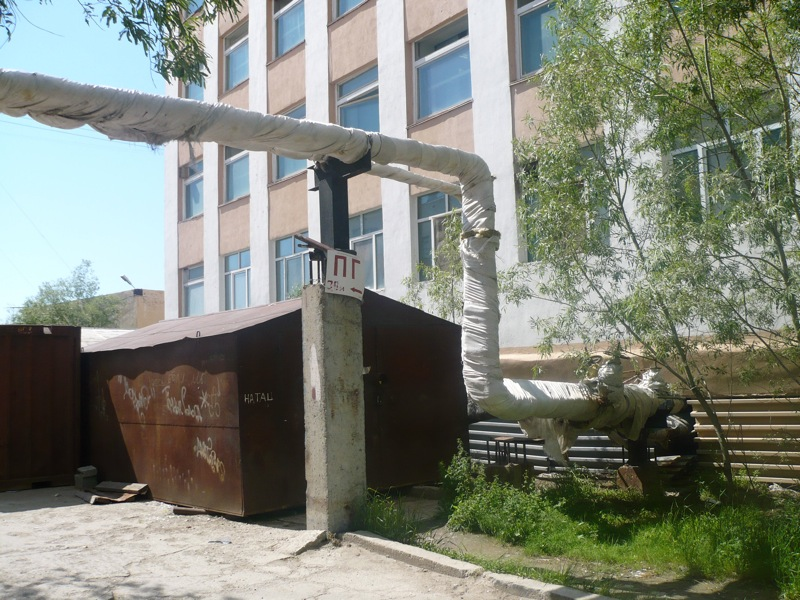 Pipes in the permafrost cannot be dug into the ground as they are in warmer climates, so they are raised over the ground and are insulated.